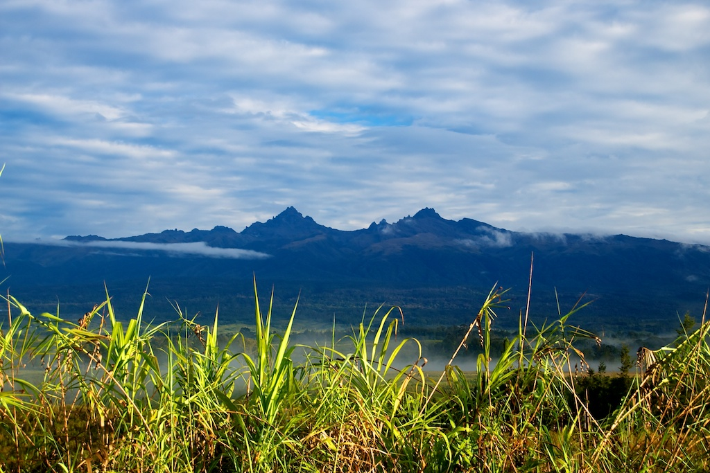 Taken from Ialibu town early in the morning.